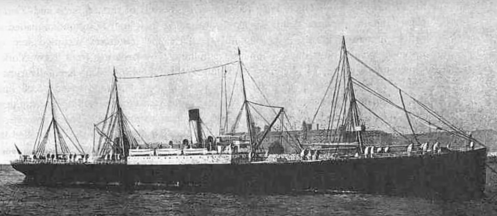 SS Bovic.